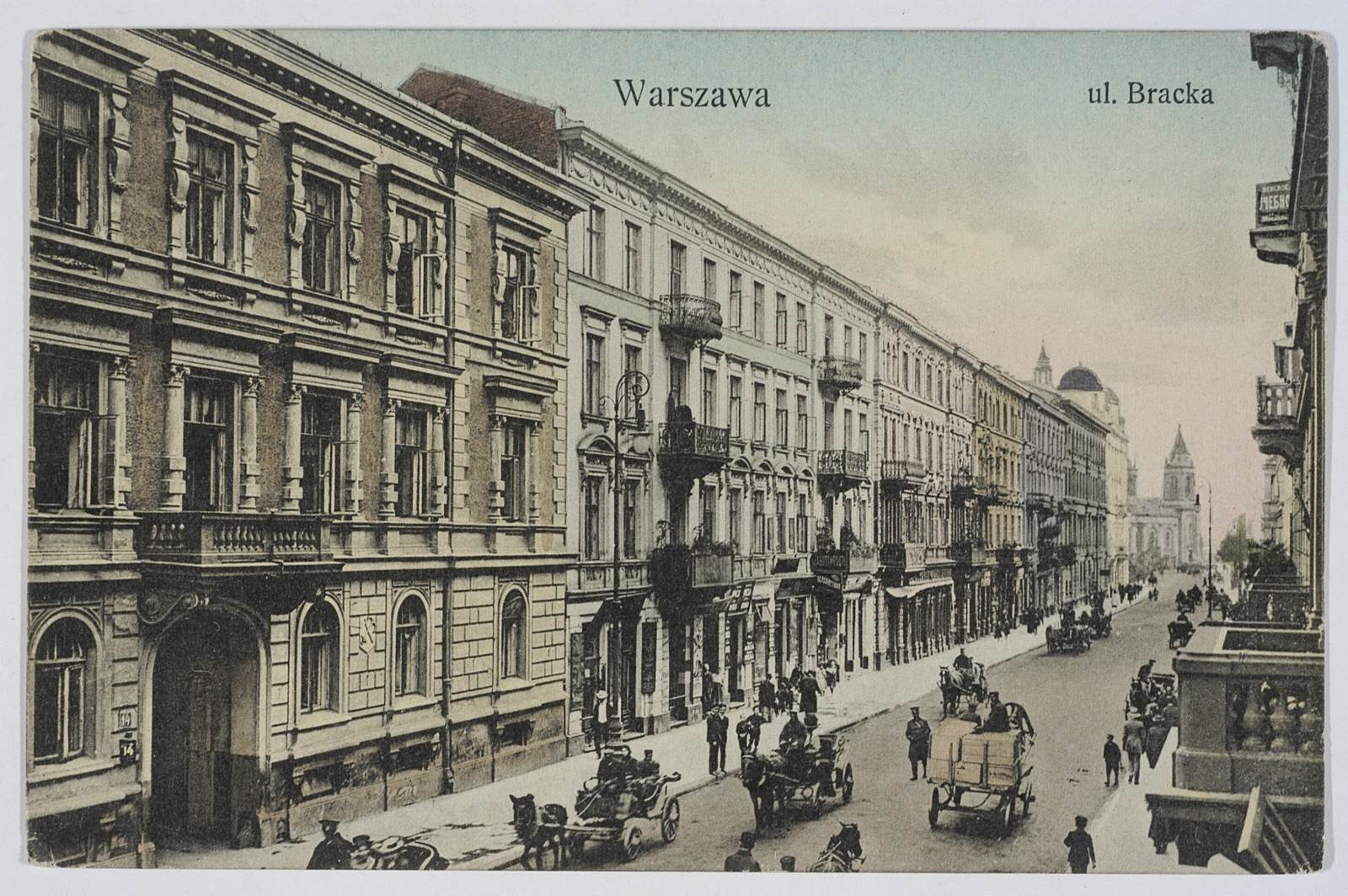 Bracka Street in Warsaw